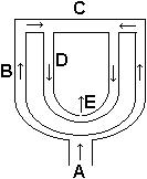 Scheme of the burnerhead of a Primus Burner. A: Conaction to petroleum container; B: ascending pipes carrying cold petroleum to the burnerhead C: Burnerhead; D: Descending pipes carrying hot petroleum from the burnerhead to the nozzle; E: nozzle and escaping hot petroleum ready to burn in the air.